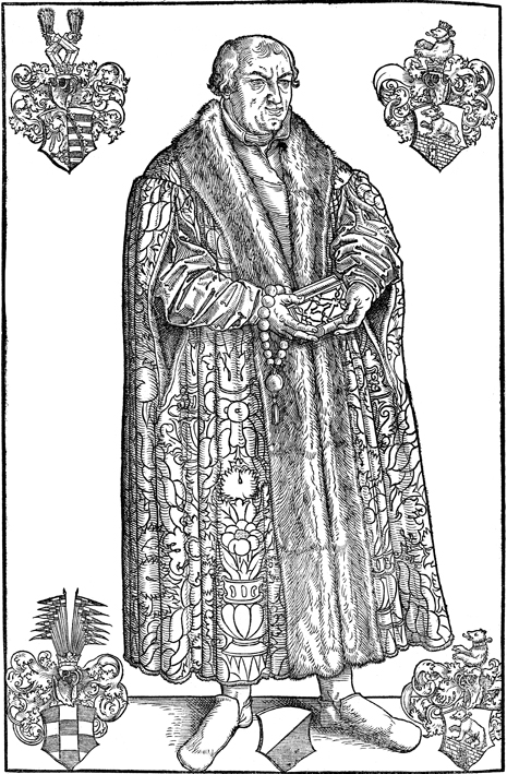 Portrait of Prince George III of Anhalt-Dessau. The volume containing this image is part of the Pitts Theology Library at Emory University. This image, and many others, have been included in the Pitts Digital Image Archive.